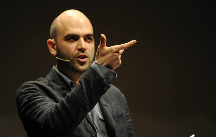 Roberto Saviano by Giancarlo Belfiore ijf10